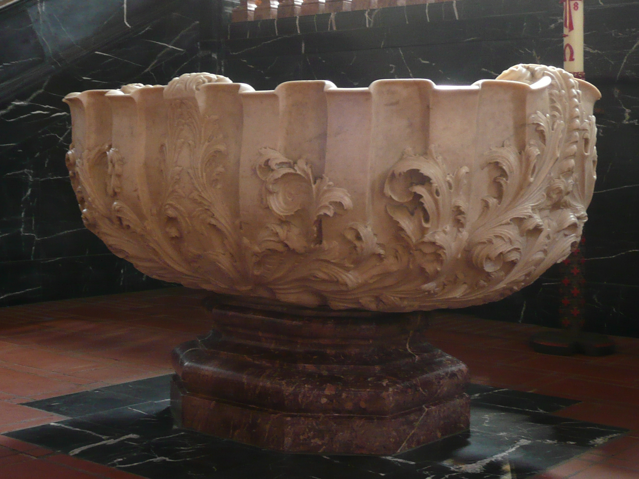 Subject: Baptismal Font Sculptor: Johann Wolfgang Fröhlicher (1652–1700) Technique: White Marble Date: v. 1700 Country of origin: Germany Current location (city): Trier Current location (gallery): Cathedral of Saint Peter (Trierer Dom) Other notes